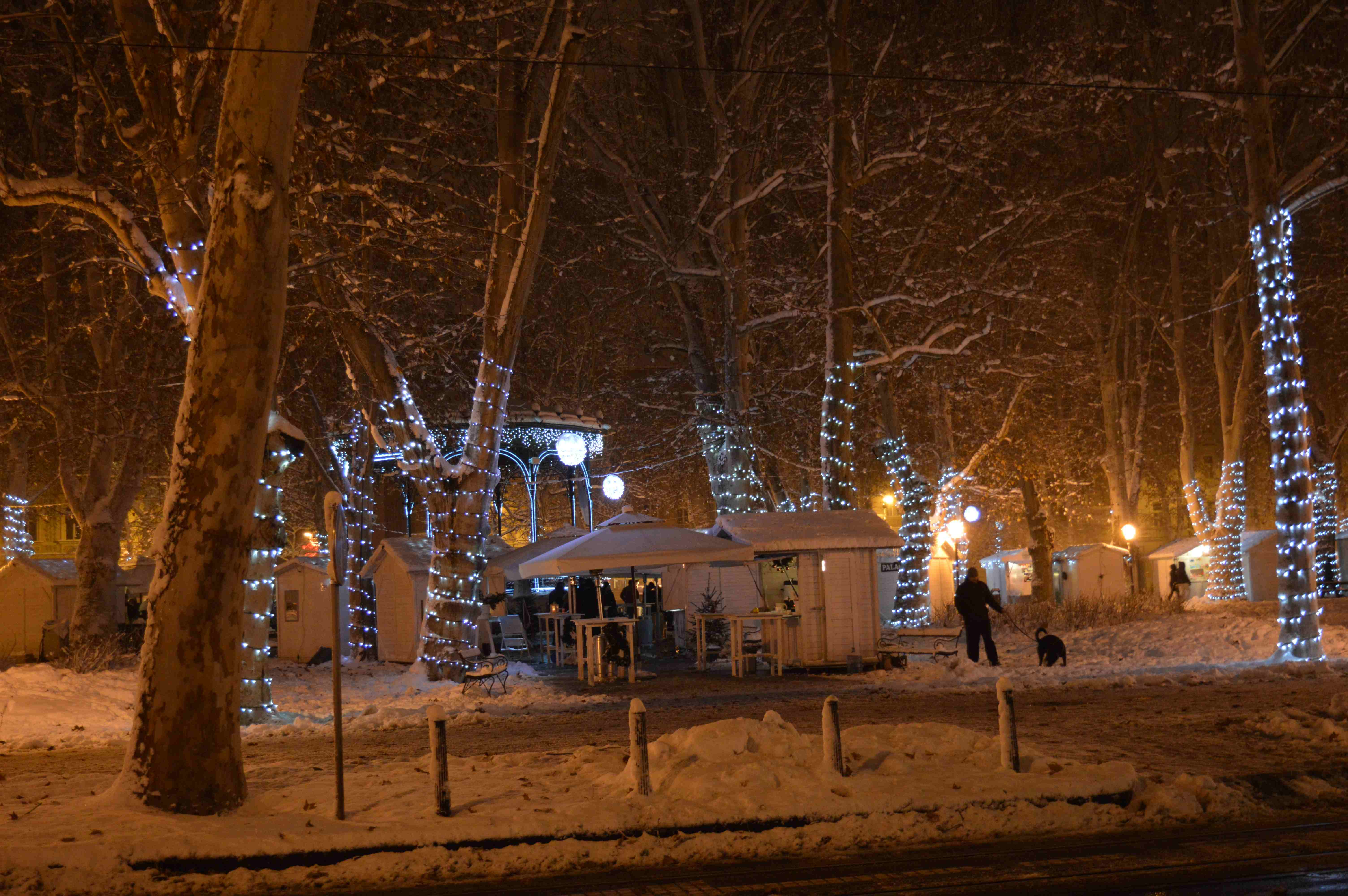 Christmas lights in Zagreb